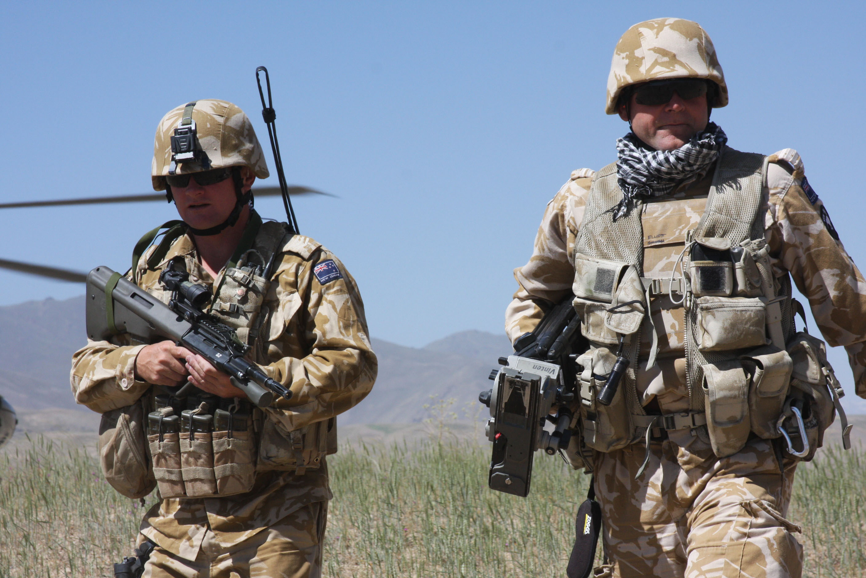 BAGRAM AIR FIELD, Afghanistan?Group Capt. Greg Elliot, right, the New Zealand Provincial Reconstruction Team commander, and Staff Sgt. Kerry Anderson, left, a personal protective officer with the New Zealand PRT, walk away from a helicopter after arriving in Shebar district, Bamyan province, to celebrate the opening of a new road in the area, July 23. The New Zealand Defense Force Task Group Crib 14 assumed mission responsibilities April 18, and work closely with government officials to tailor development programs, focussing primarily on improving roads, agriculture and security during their six month rotation. (Photo by U.S. Army 1st Lt. Lory Stevens, Task Force Warrior Public Affairs Office)